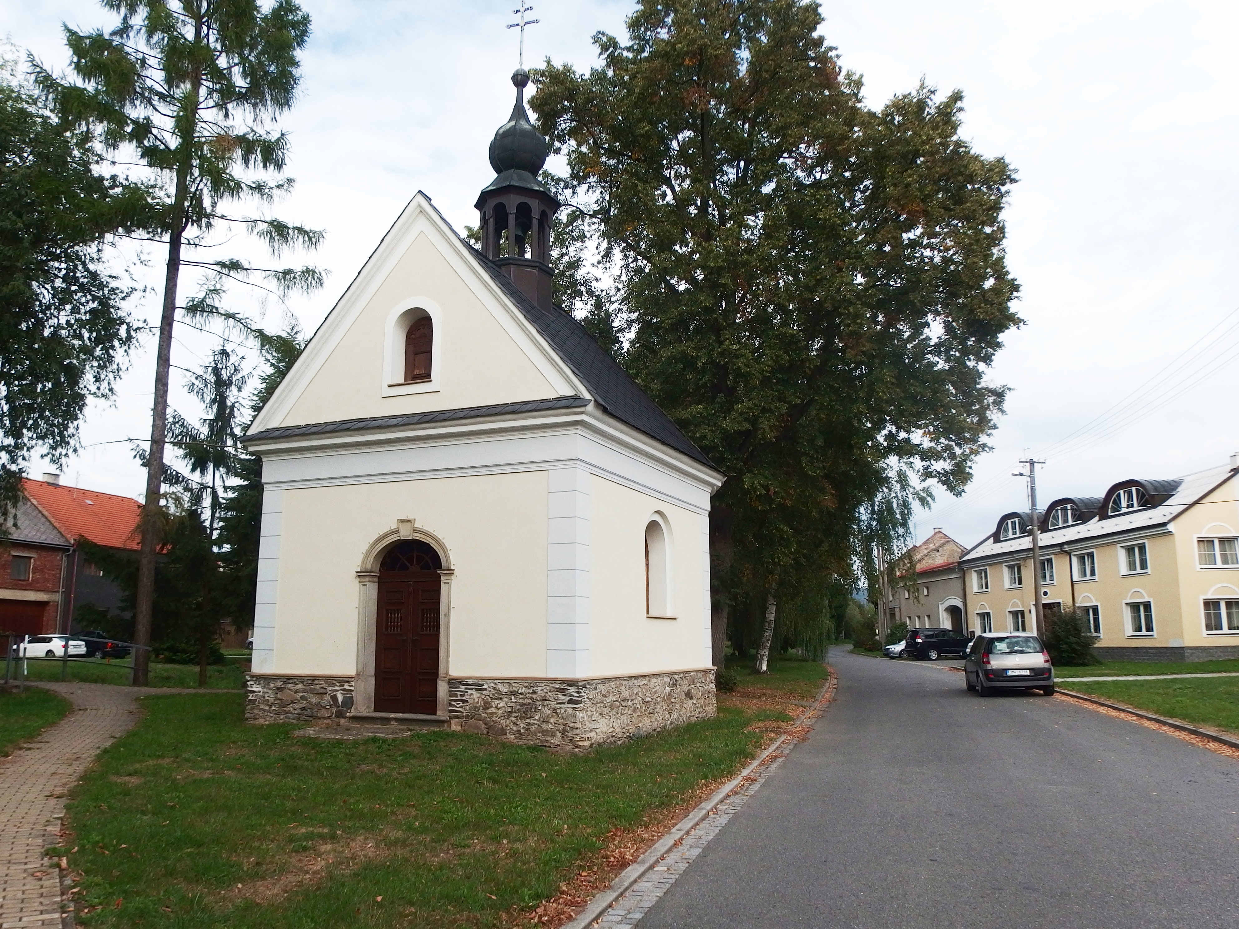 Bohuňovice, Olomouc District, Czech Republic.